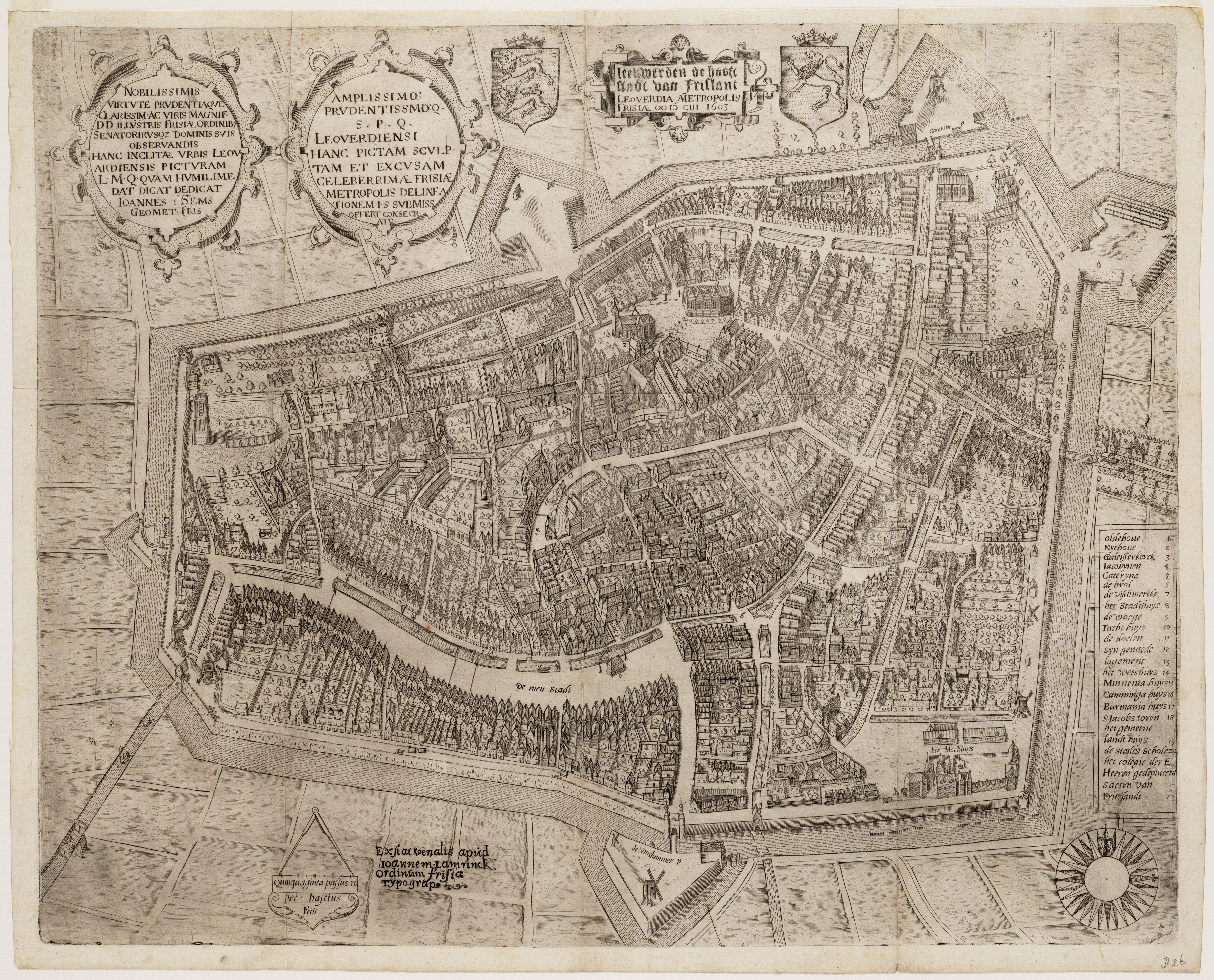 City map of Leeuwarden made by Johan Sems in 1603